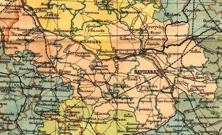 Warsaw Governorate in 1896